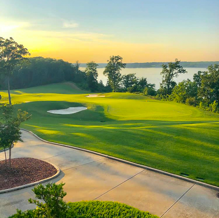 The Tennessee River seen from the Robert Trent Jones golf trail in Muscle Shoals, Alabama.